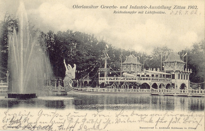 Zittau industrial exhibition 1902